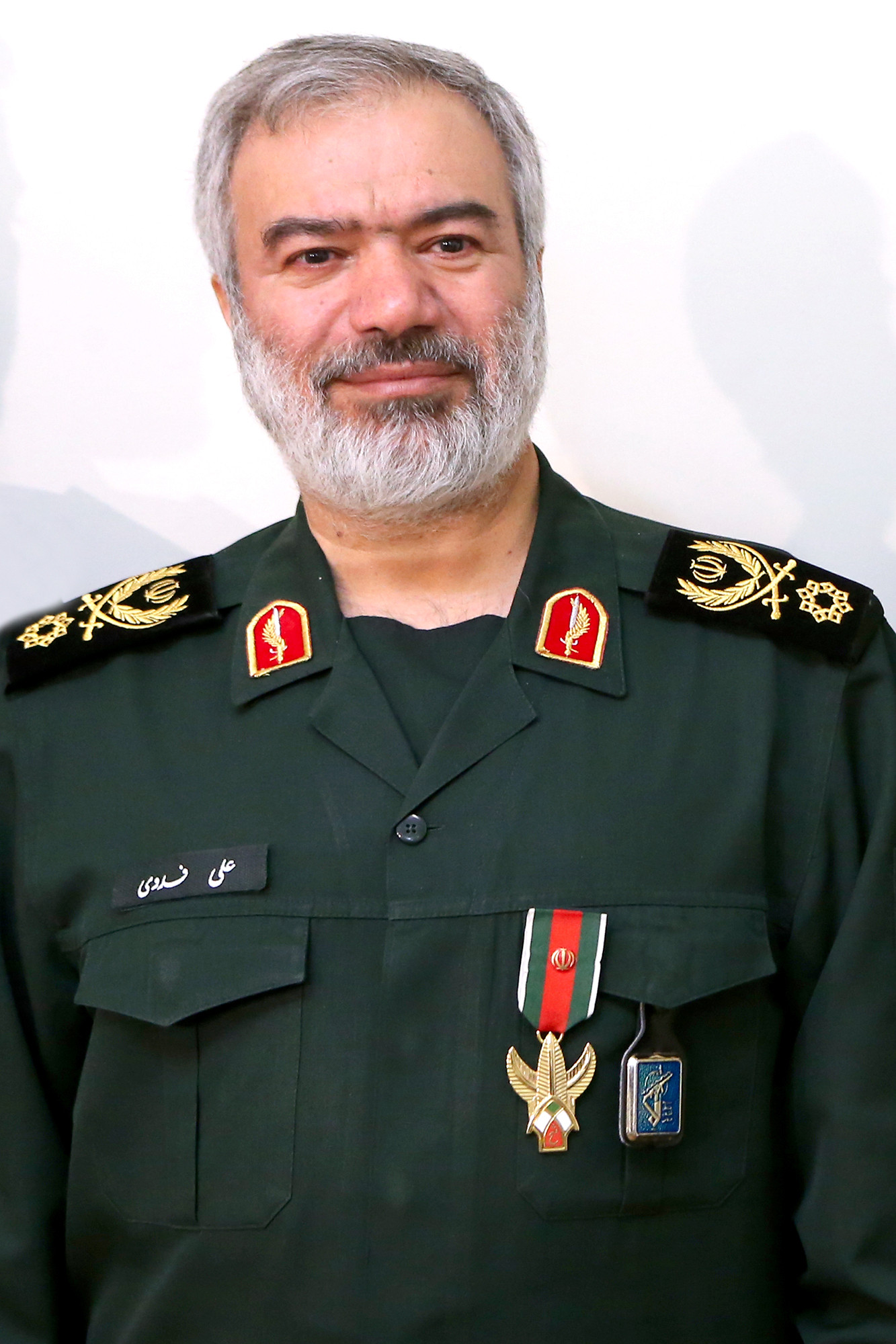 Commodore Ali Fadavi is current commander of Navy of the Army of the Guardians of the Islamic Revolution